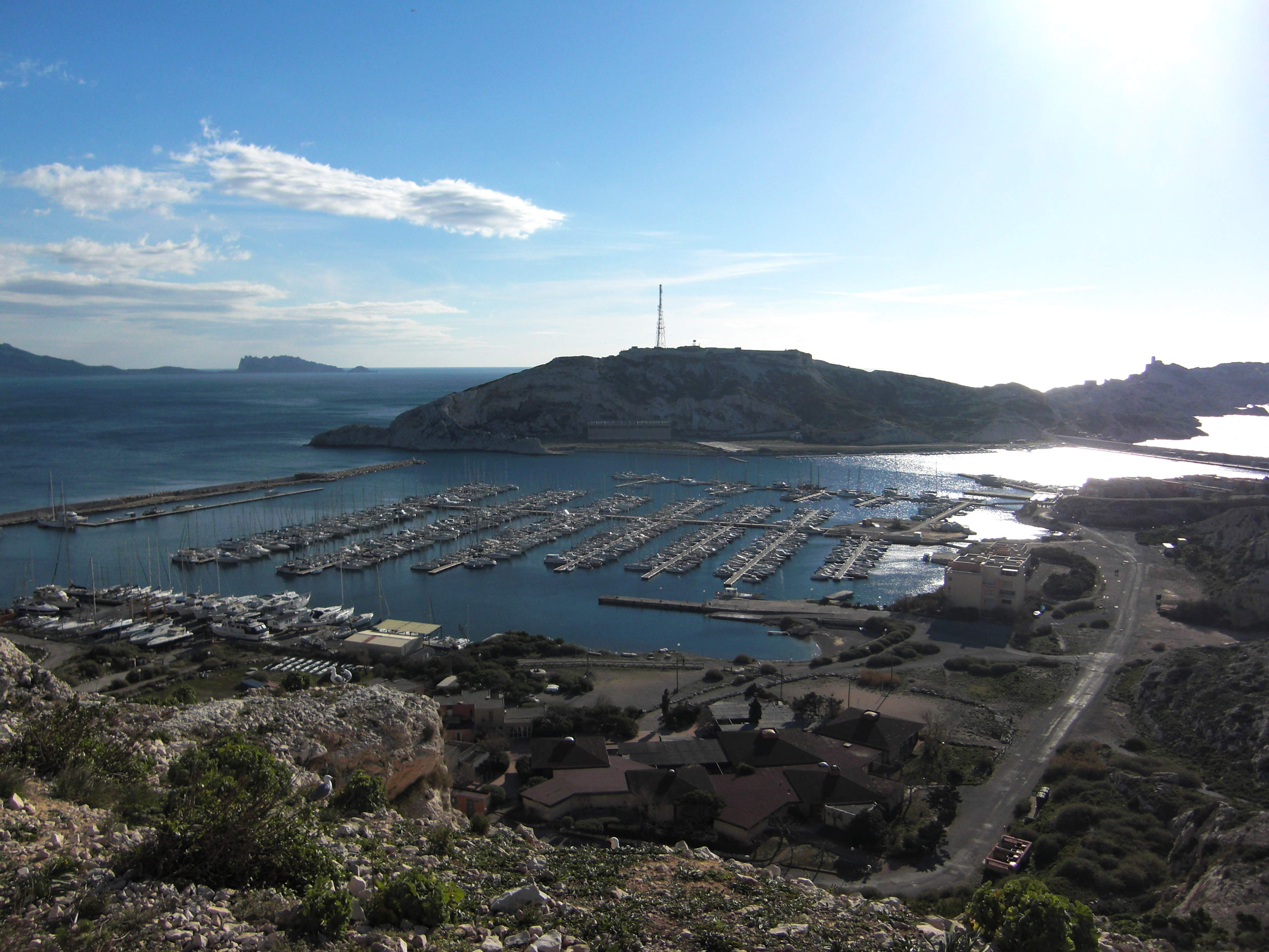 View on Port Frioul, Île de Ratonneau